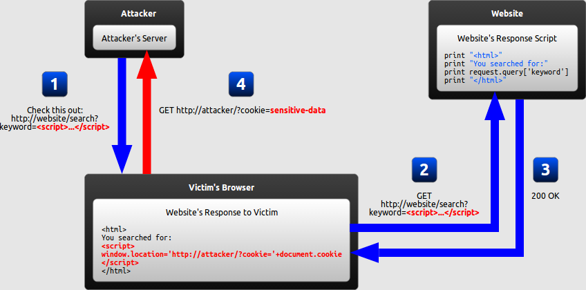 Монгол: Reflected XSS